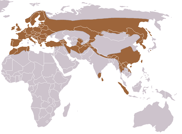 European Otter (lutra lutra) range